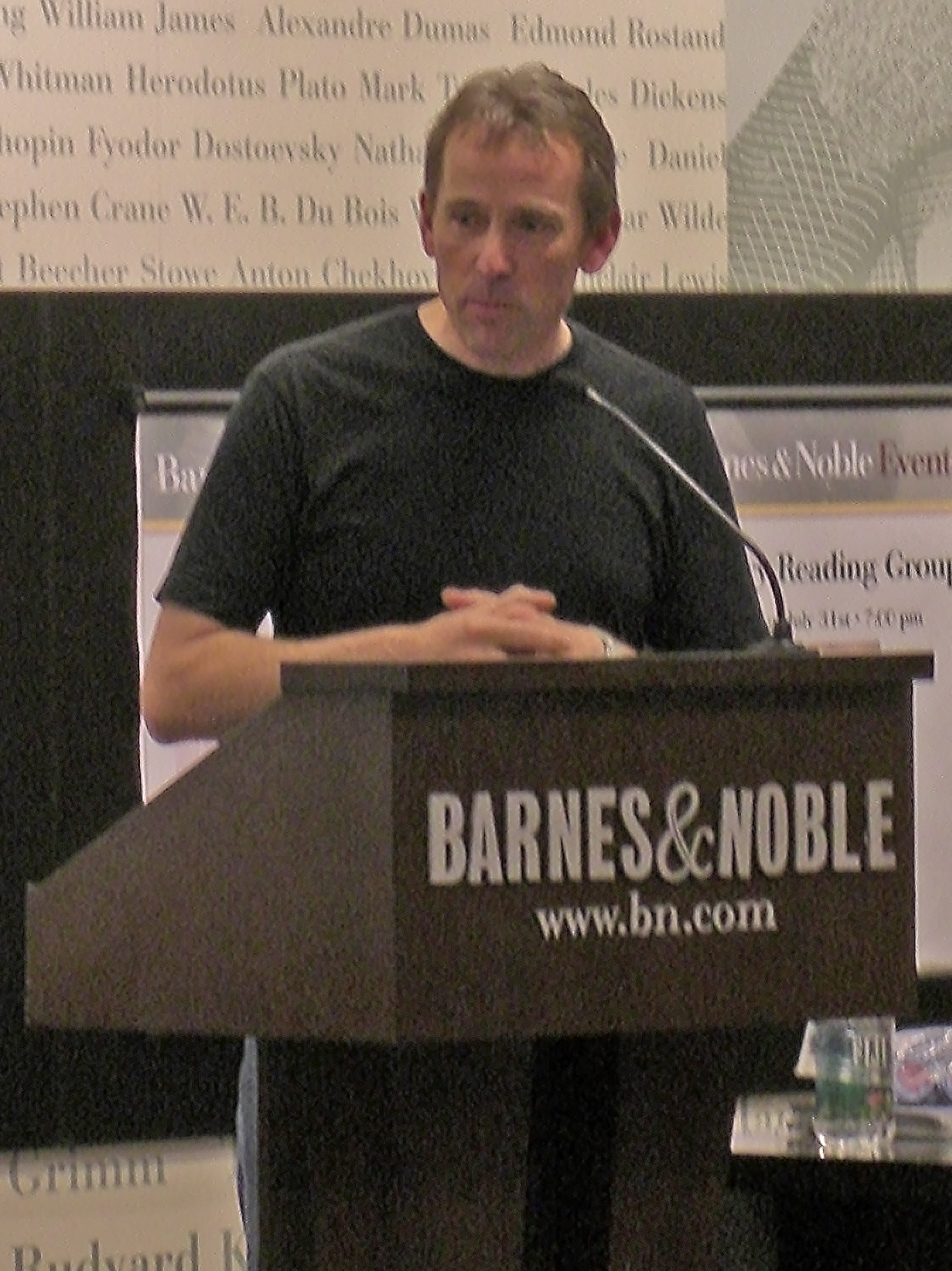 Image of Jasper Fforde taken by myself at a book signing in New York City.